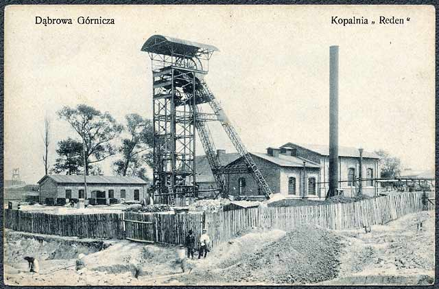 A postcard of Reden Coal Mine in Dąbrowa Górnicza, Poland. Published by K. Kostrzeński, ca. 1910.